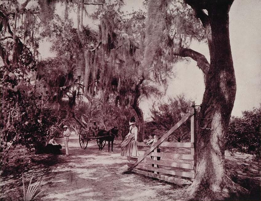 Avenue of Moss-Covered Oaks, Near Ormond, Florida, a duotone print from James W. Buel, America's Wonderlands, 1893; Historical Publishing Company, Philadelphia, PA.